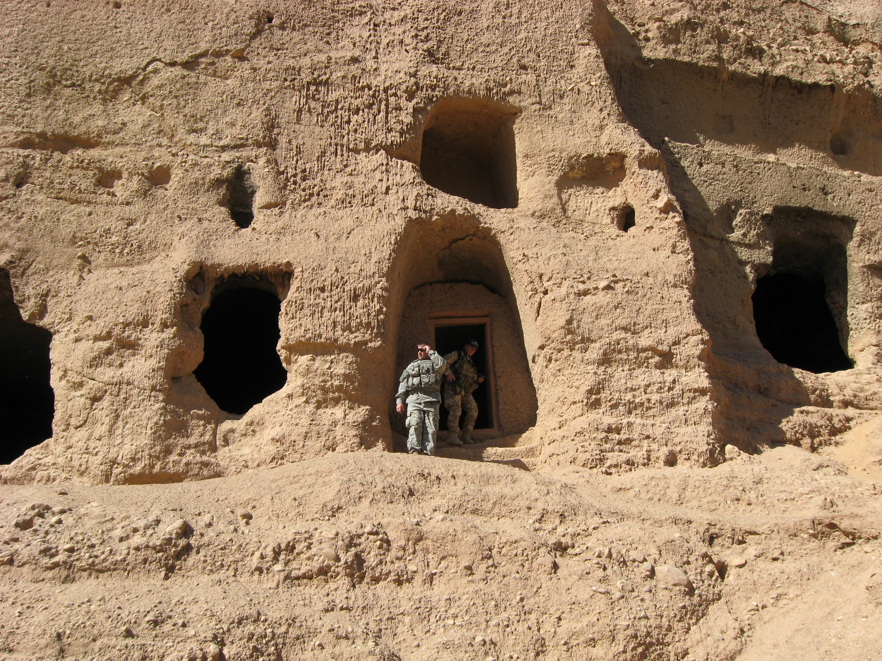 There is only one entry and exit up through the sides of the Buddha, but thousands of vantage points.